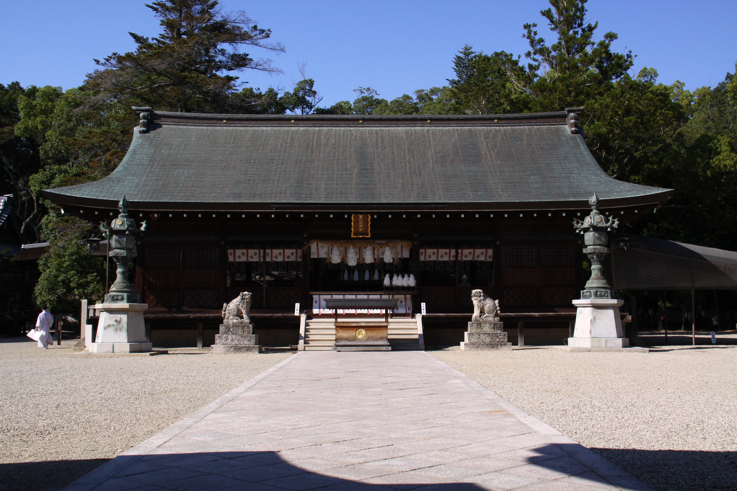 Izanagi-jingu Haiden